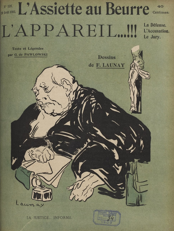 Cover of L'Assiette au beurre designed by Fabien Launay, issue 126, August 29, 1903. Printed in Paris by Schwarz at Charaire (Sceaux), zincographic process.